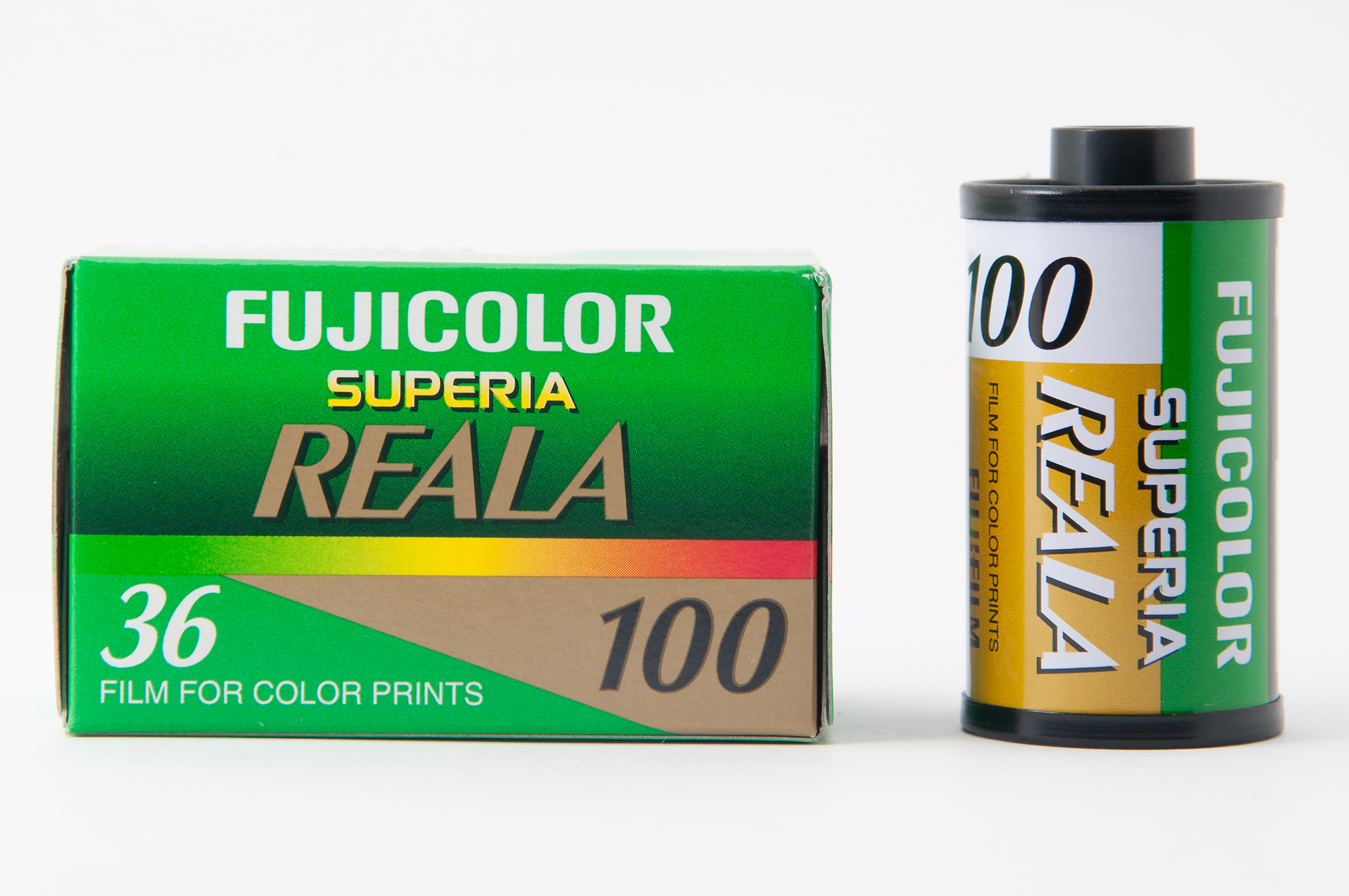 Box and canister of the Fujifilm Superia Reala 100 35mm